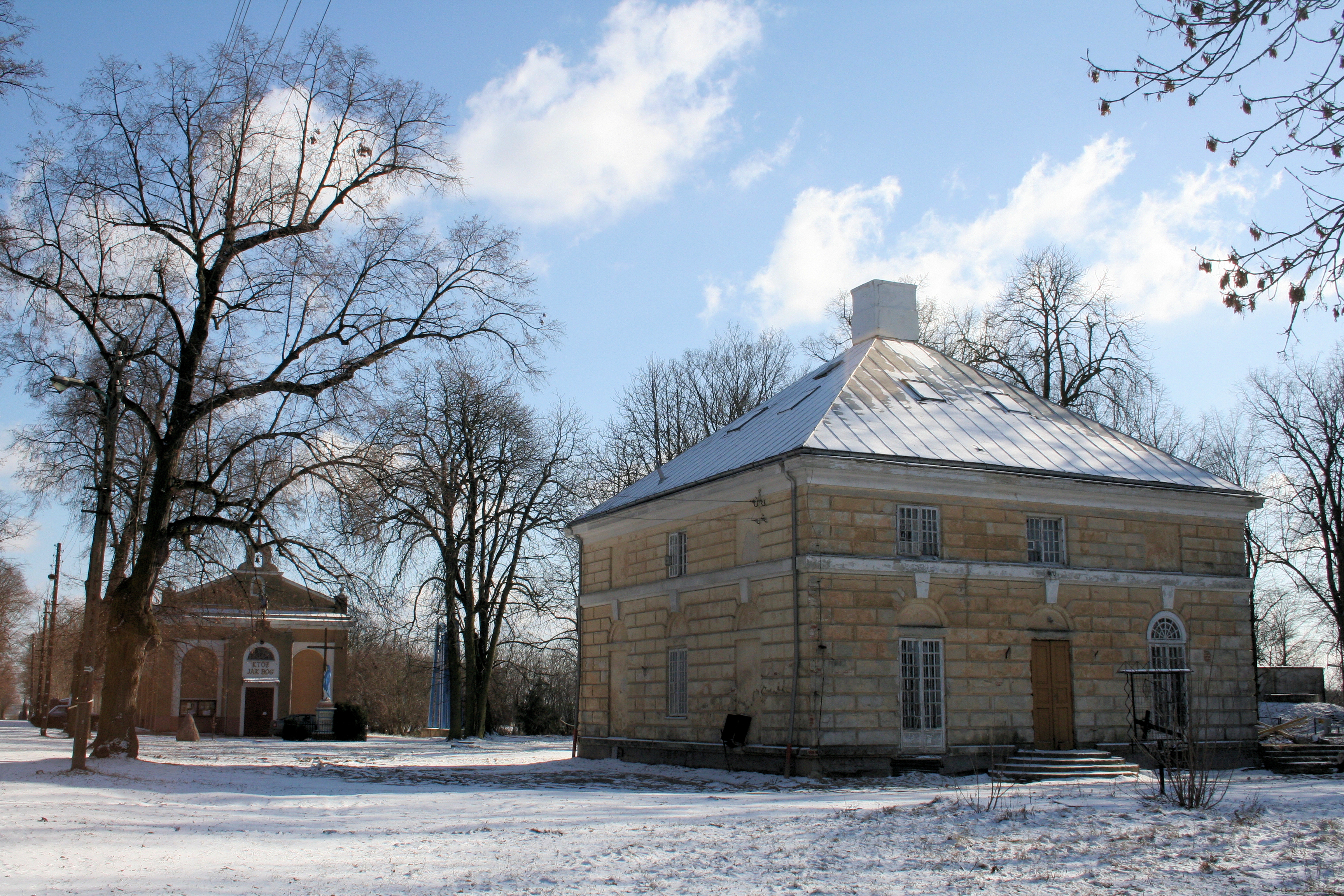 Młochów palace outbuildings